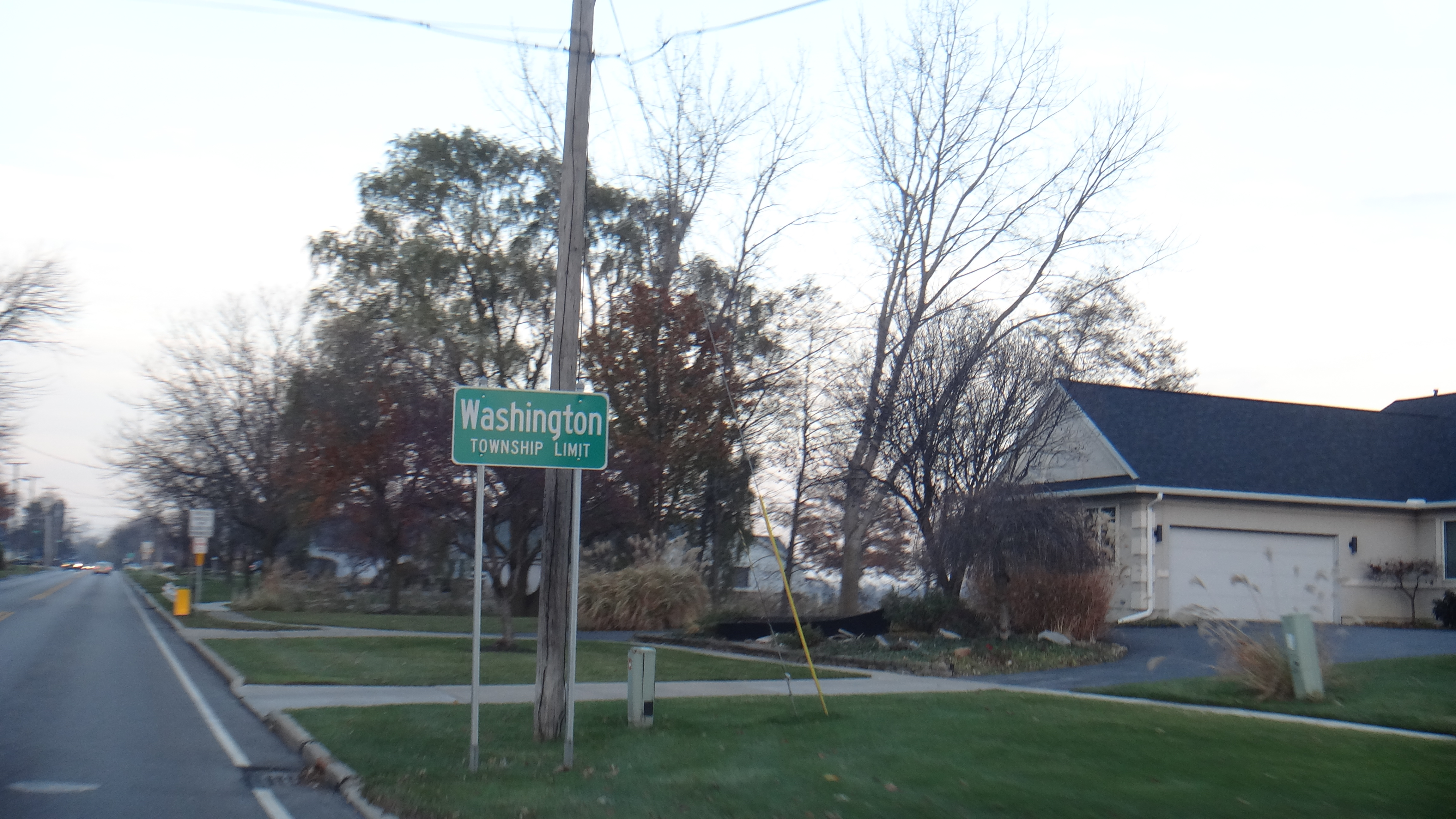 This sign is located along the boundary of Toledo and the unincorporated community of Shoreland which is part of Washington Township.